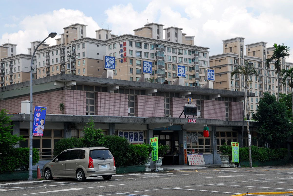 Yingge Station is a local train station of Taiwan's Western Main Line. The building in this photo is the old structure no longer used today. It is used as a motorcycle parking facility currently.中文（台灣）: 鶯歌車站是臺鐵縱貫線北段上的一座地方車站，為臺北縣鶯歌鎮的主車站。圖中所見的是已經不再使用的舊車站建築，目前改作為機車停車場使用。